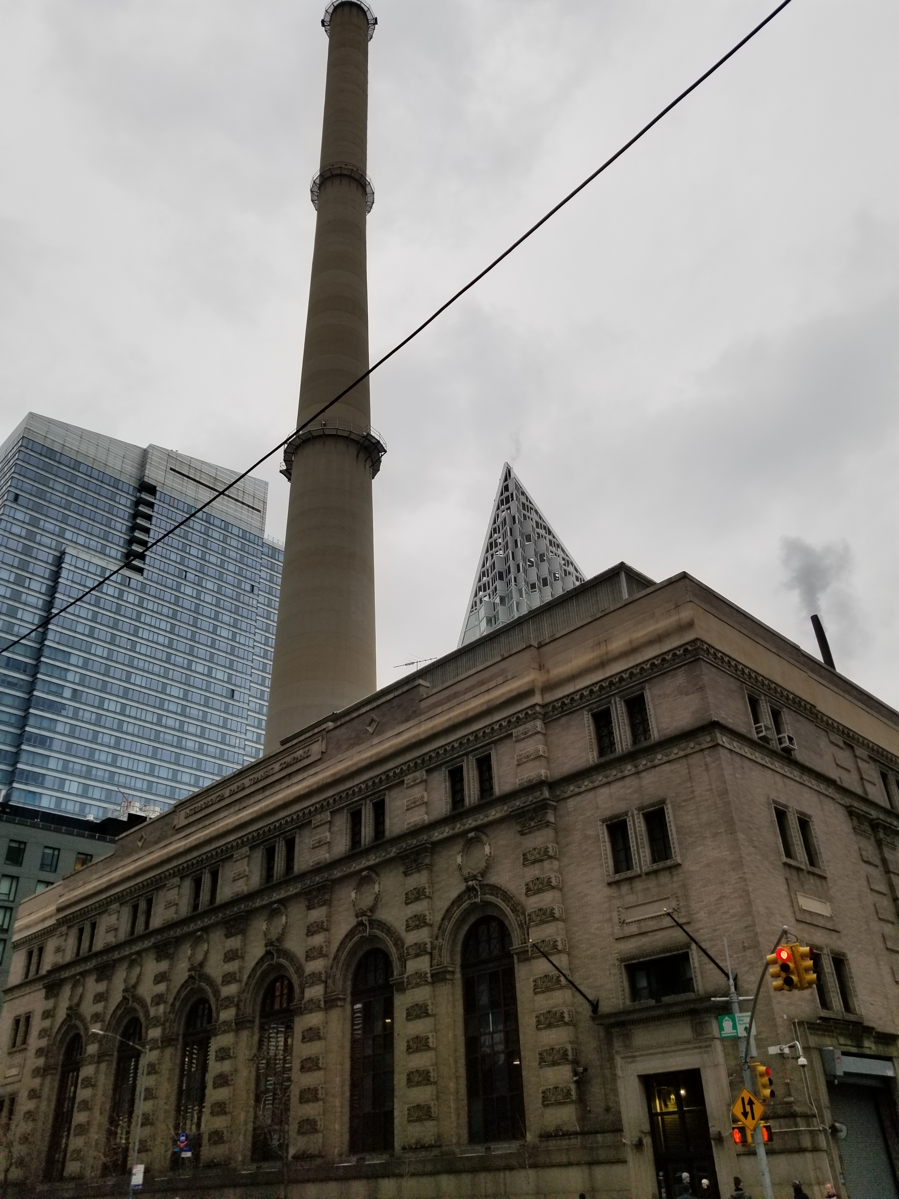 IRT powerhouse, Feb 2019